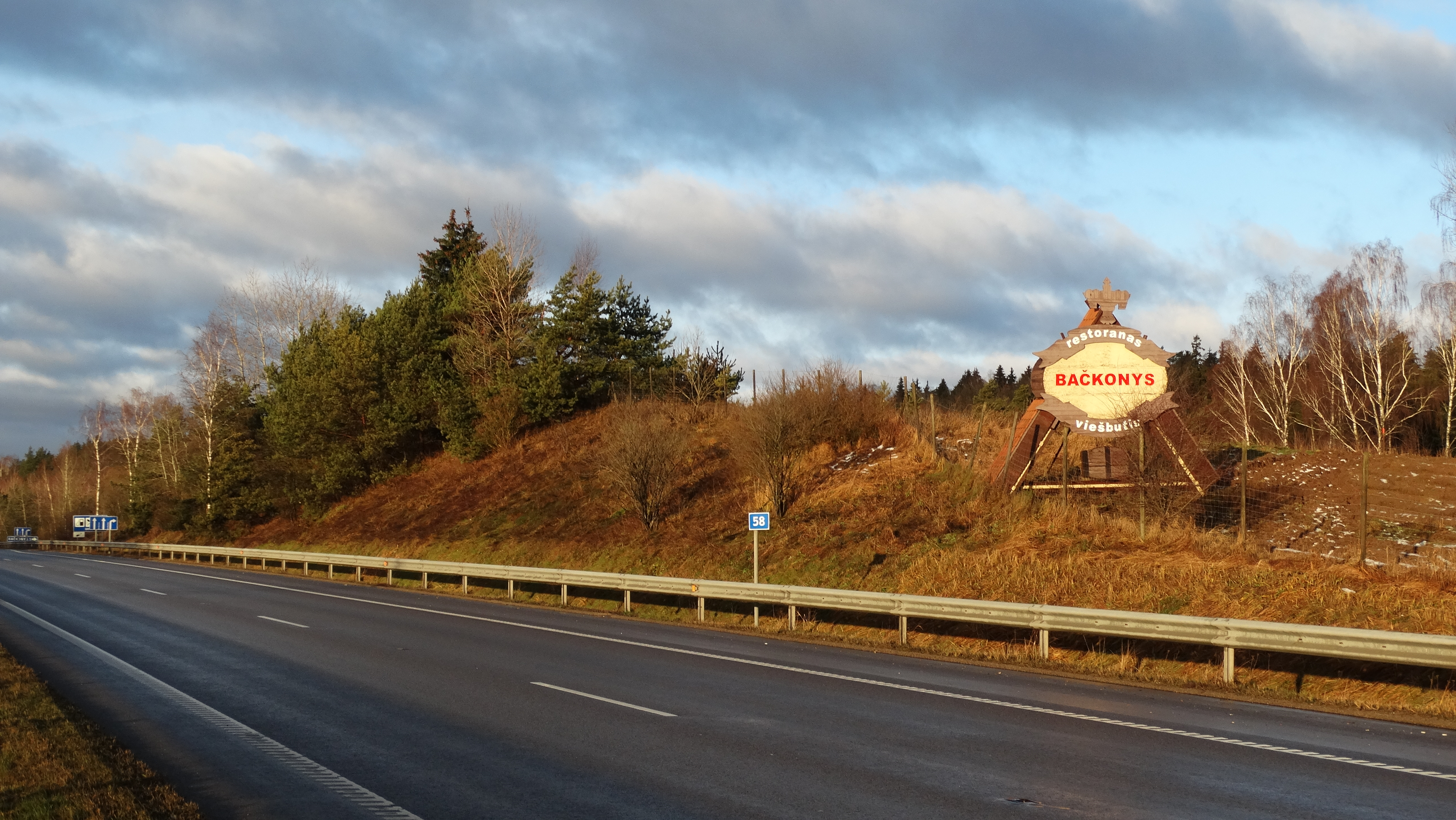 Bačkonys, Kaišiadorys district, Lithuania